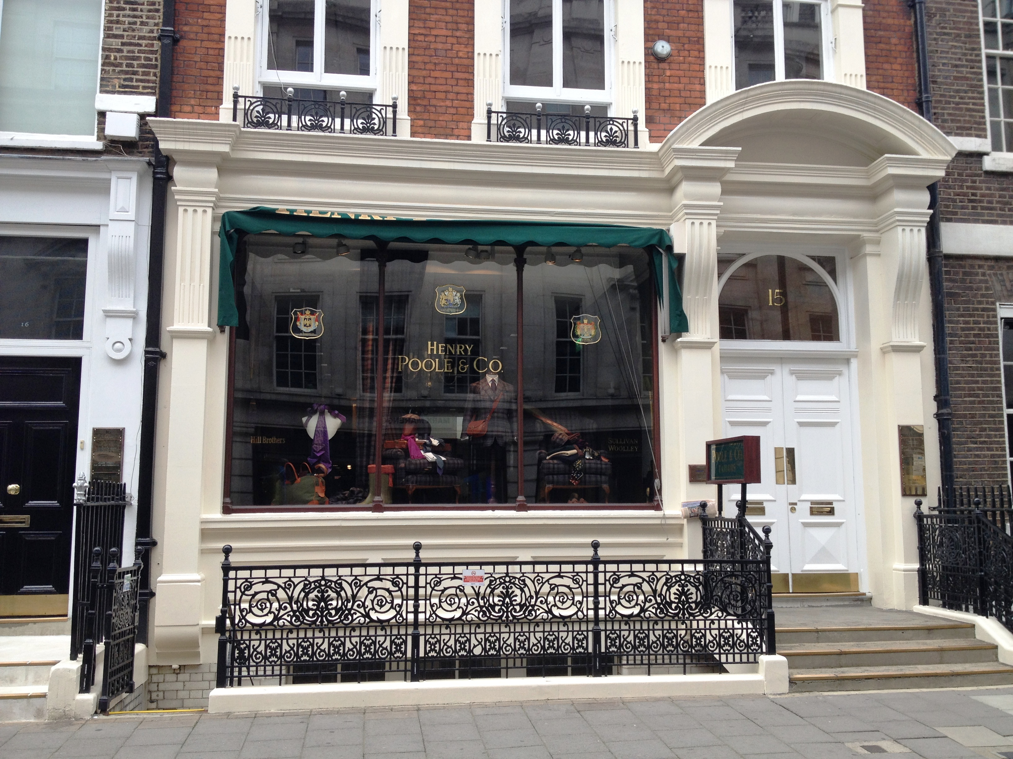 Shop of Henry Poole & Co on Savile Row in London, England.